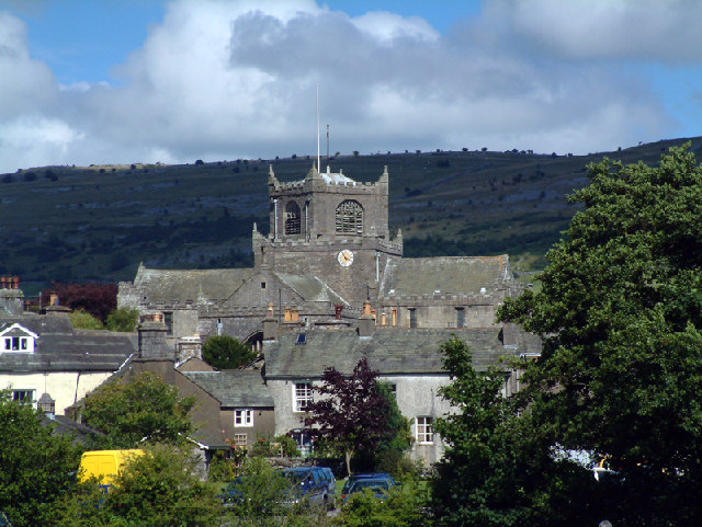 Cartmel Priory. The construction of Cartmel Priory began in c 1188. The priory church was saved from destruction by King Henry VIII, during the Reformation, because the villagers of Cartmel had nowhere else to worship. The village of Cartmel has, therefore, one of the finest churches in England. A rare example of a medieval monastic place of worship. The village contains relics of other monastic buildings, most significantly the priory gatehouse. As a consequence Cartmel is visited by tourists from all over the world.